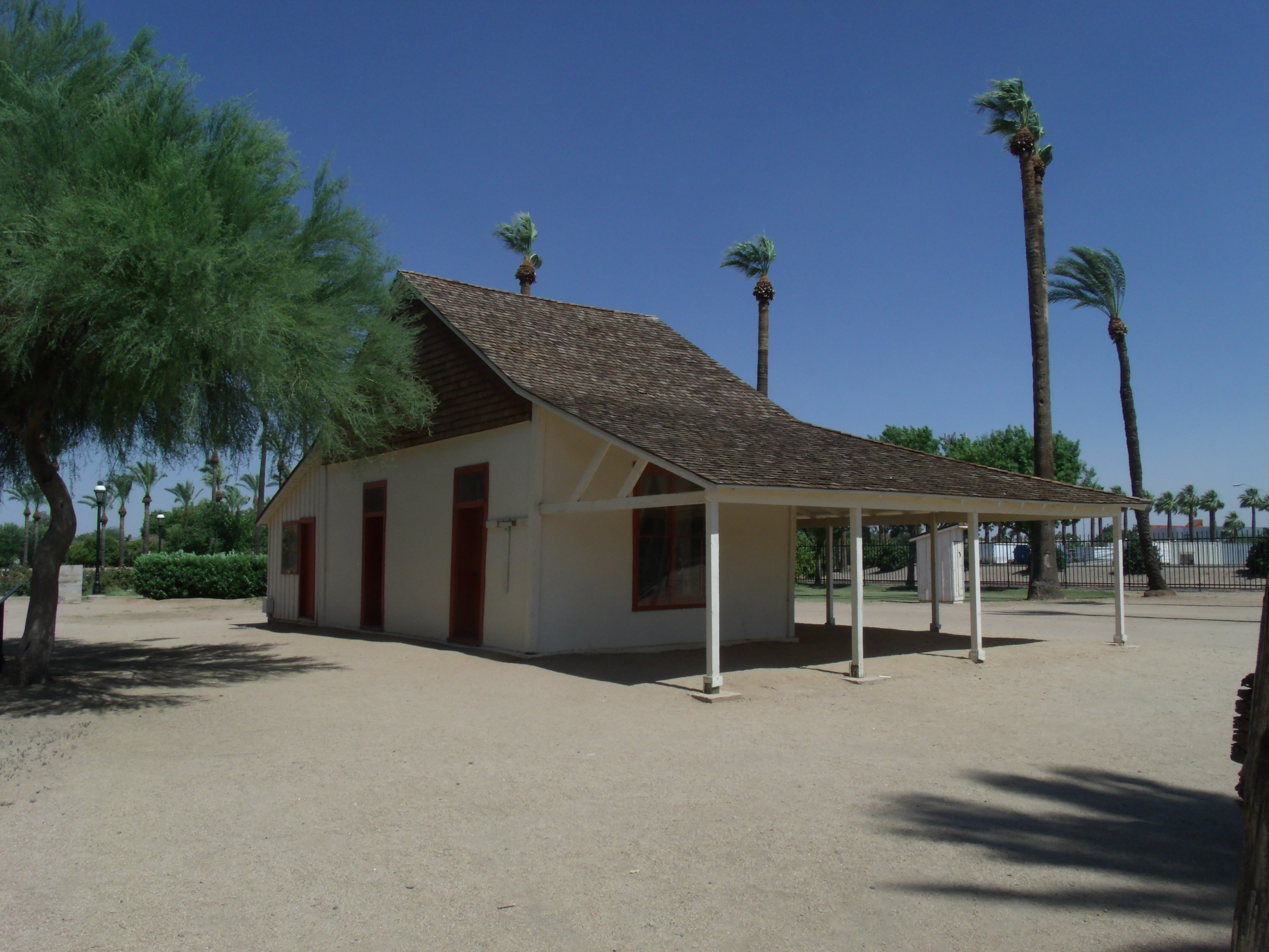 1880 Adobe house of Saguaro Ranch, Glendale, Arizona